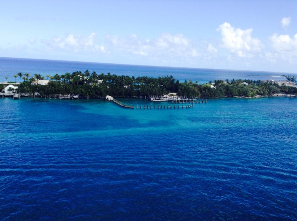 View of the island taken from a ship.